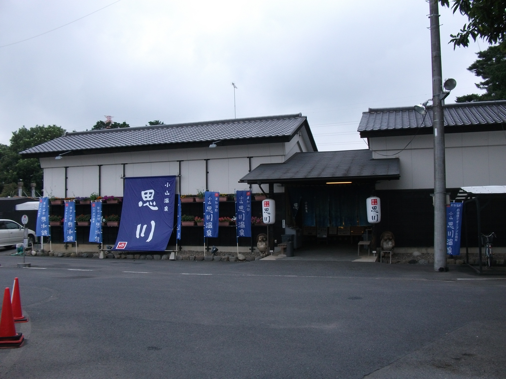 Oyamaonsen Omoigawa (Tochigi, Japan)